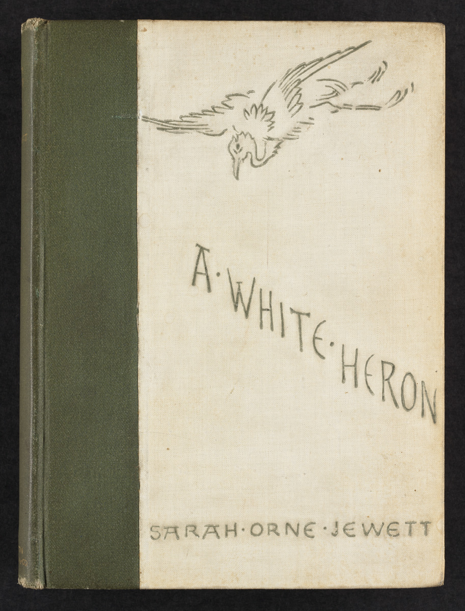 File name: 06_04_000063Title: JEWETT(1886) A white heron and other storiesDate issued: 1886Genre: Book coversNotes: Jewett, Sarah Orne, 1849-1909 (Author)Collection: Sarah Wyman Whitman BindingsLocation: Boston Public Library, Special CollectionsRights: No known copyright restrictions.